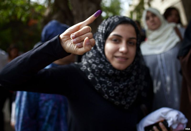 A young voter shows with pride proof she took part in Egypt's first widely contested presidential election, May 23, 2012. (Yuli Weeks/VOA)